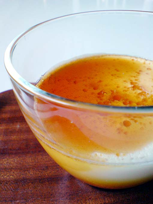 Caramel pudding (flan)